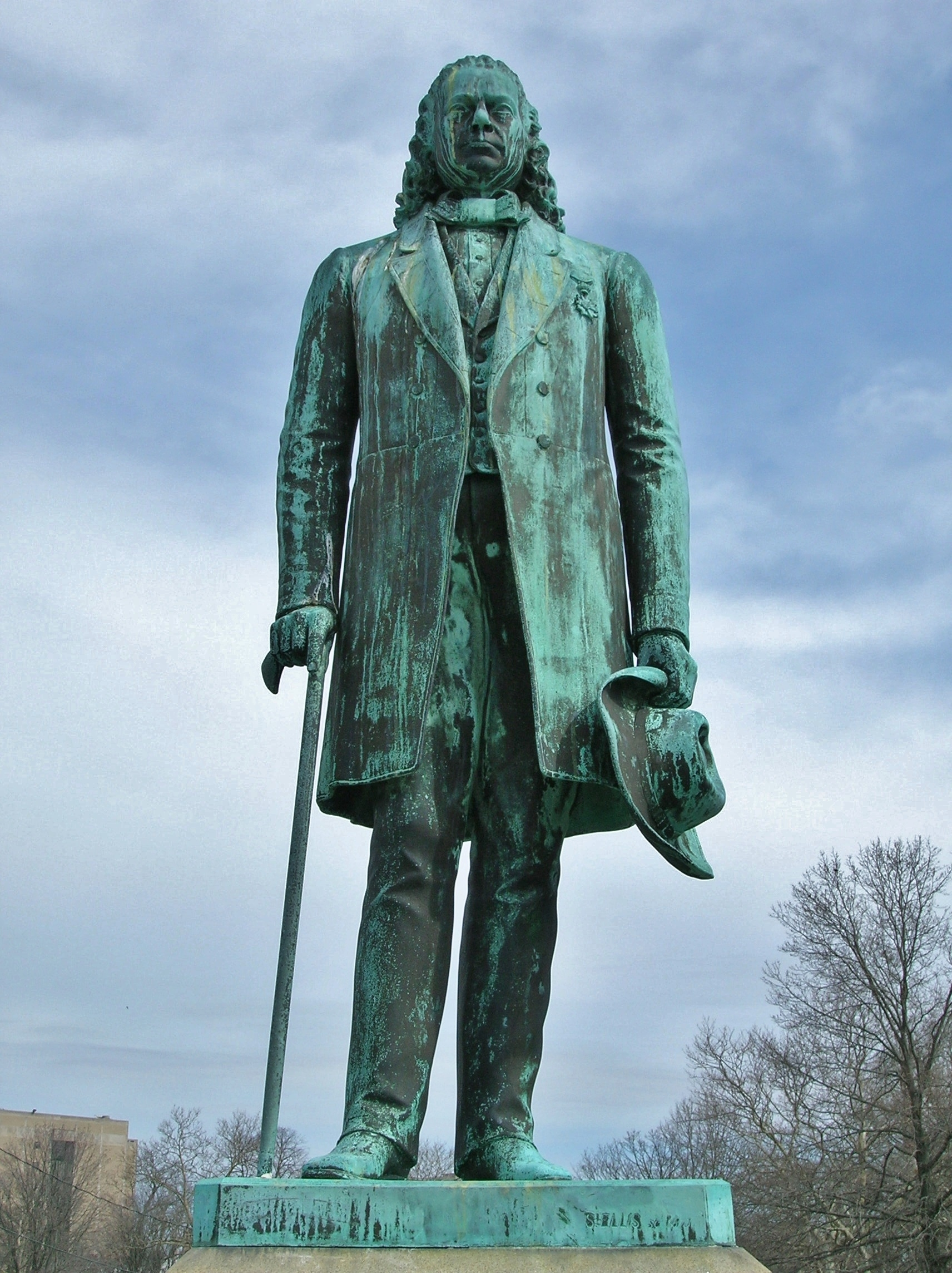 Photograph of Elias Howe monument (1873), sculpted by Salathiel Ellis, located in Seaside Park, Bridgeport, CT.